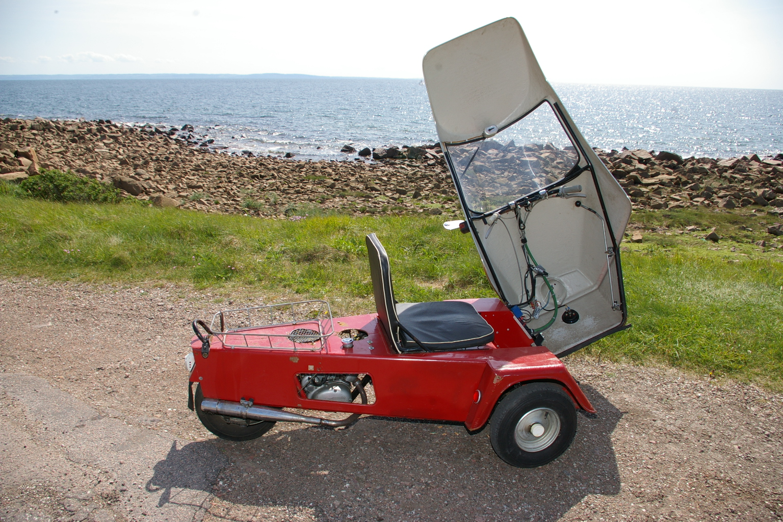 Norsjö Shopper, opened